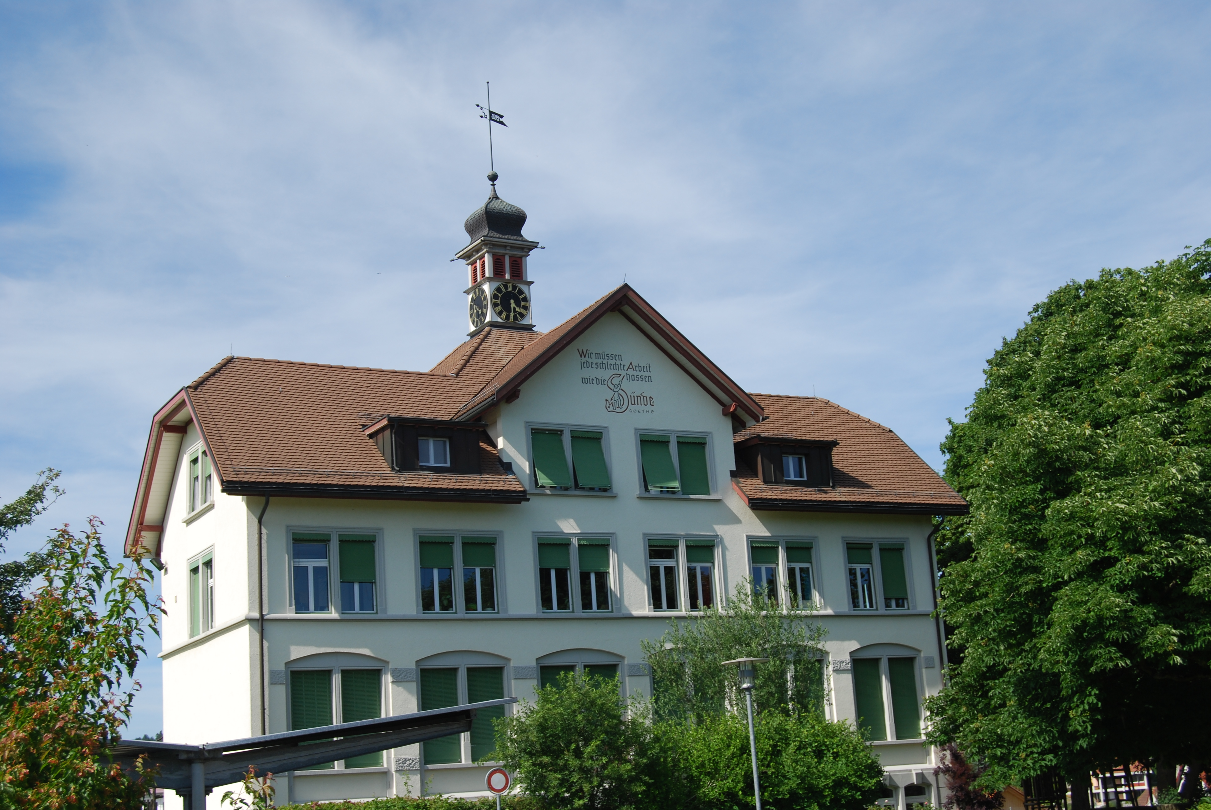 Old school of Bronschhofen, canton of St. Gallen, SwitzerlandEsperanto: Malnova lernejo de Bronschhofen, Kantono Sankt-Galo, Svislando